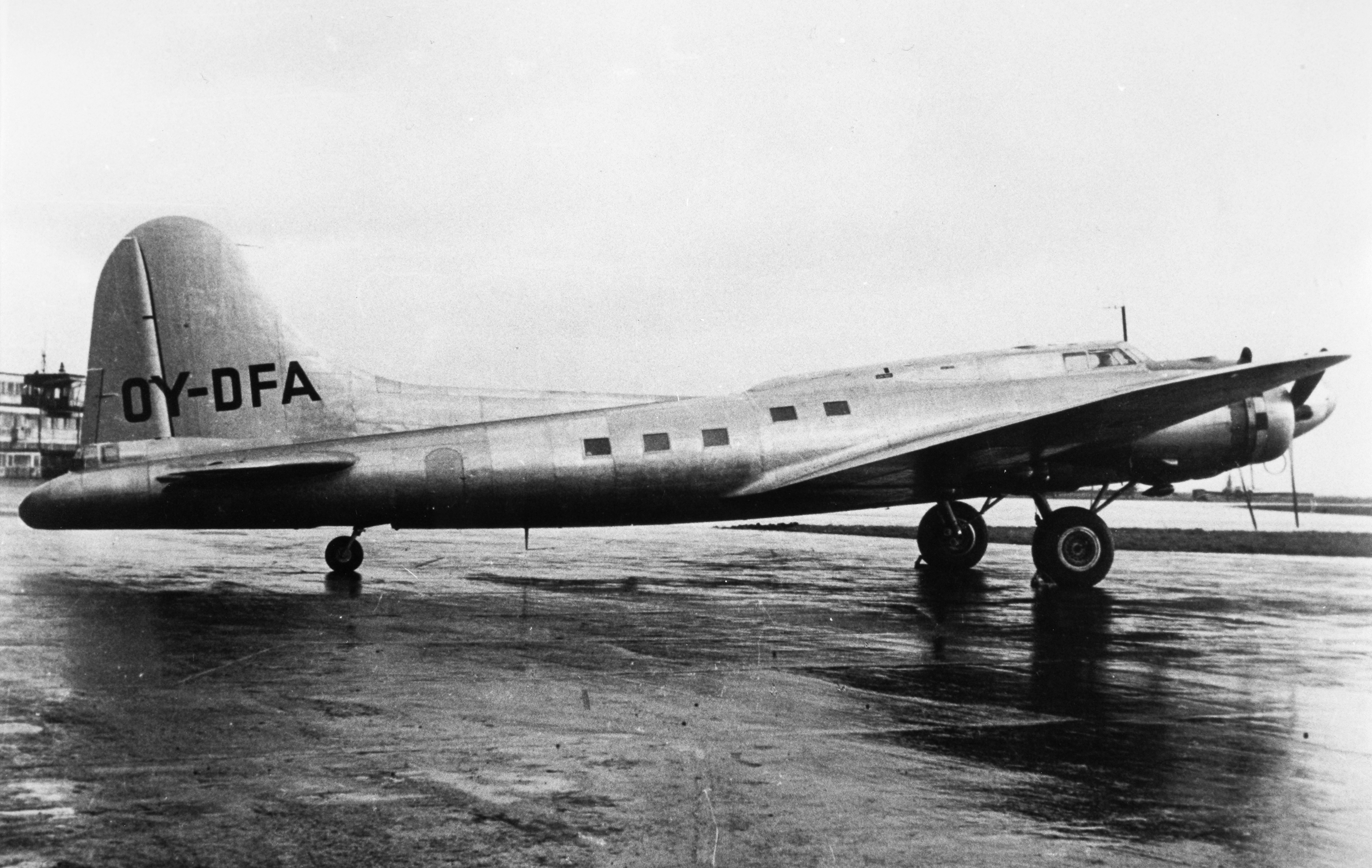 B-17G Stig Viking (OY-DFA) operated by Det Danske Luftfartselskab.